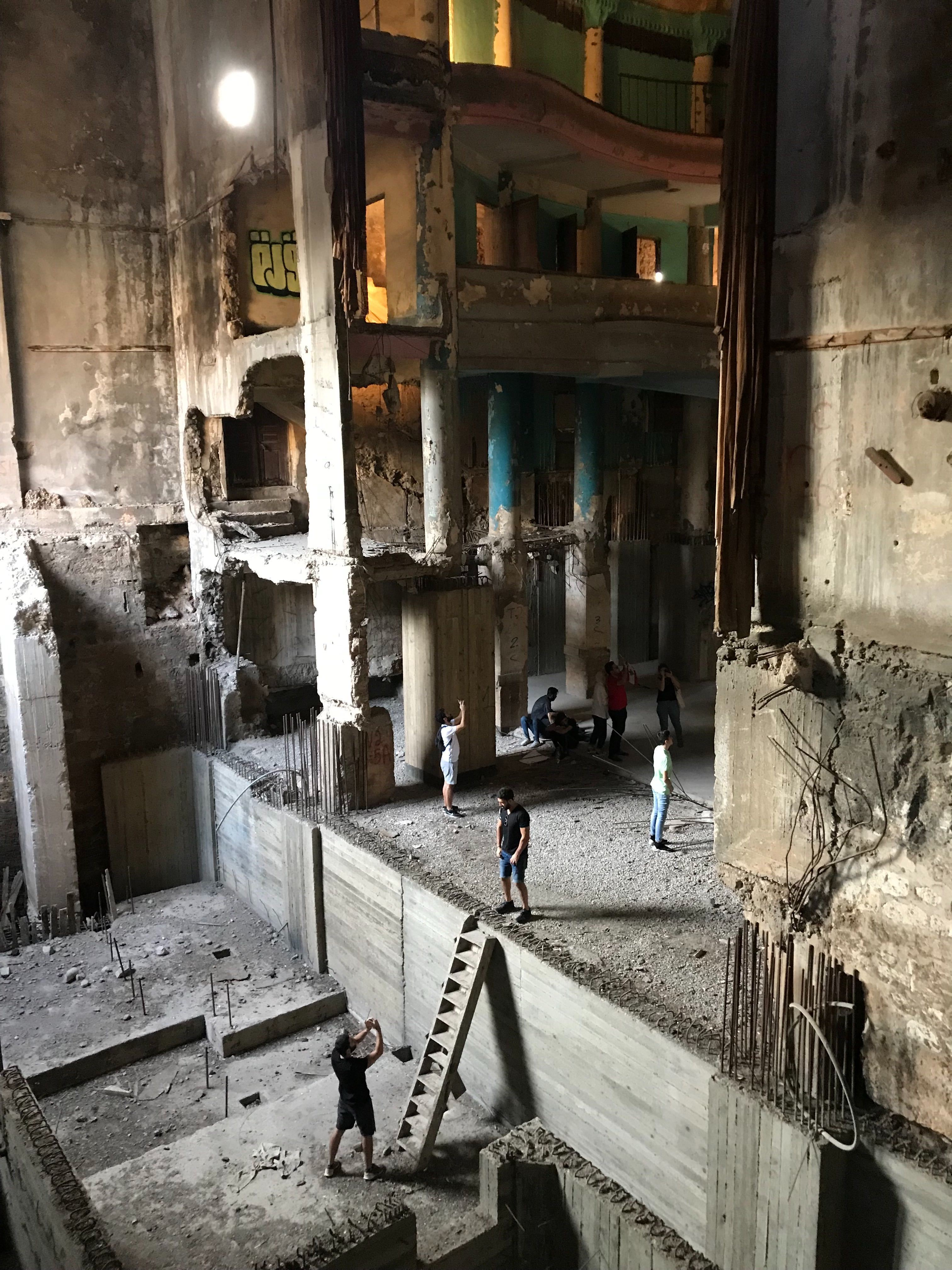 Ordinarily closed to the public, the Grand Theatre became a locus of interest during the 2019 uprising, when boardings were taken down so that the public could stream in.